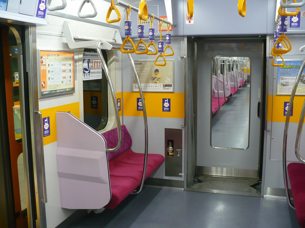 Interior view of Tokyu 5080 series EMU car 5185, showing priority seating